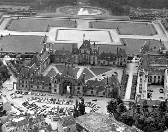 Henri IV quarter, Palace of Fontainebleau